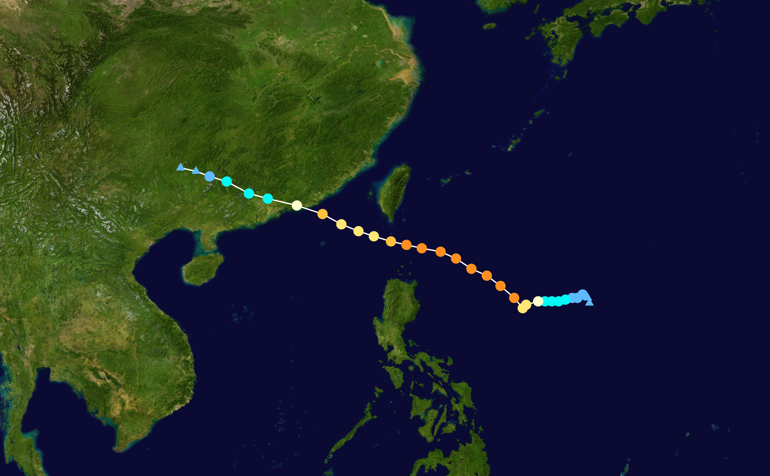 Track map of Typhoon Usagi of the 2013 Pacific typhoon season. The points show the location of the storm at 6-hour intervals. The colour represents the storm's maximum sustained wind speeds as classified in the Saffir–Simpson scale (see below), and the shape of the data points represent the nature of the storm, according to the legend below. Saffir–Simpson scale Tropical depression≤38 mph≤62 km/h Category 3111–129 mph178–208 km/h Tropical storm39–73 mph63–118 km/h Category 4130–156 mph209–251 km/h Category 174–95 mph119–153 km/h Category 5≥157 mph≥252 km/h Category 296–110 mph154–177 km/h Unknown Storm type Tropical cyclone Subtropical cyclone Extratropical cyclone / Remnant low / Tropical disturbance / Monsoon depression